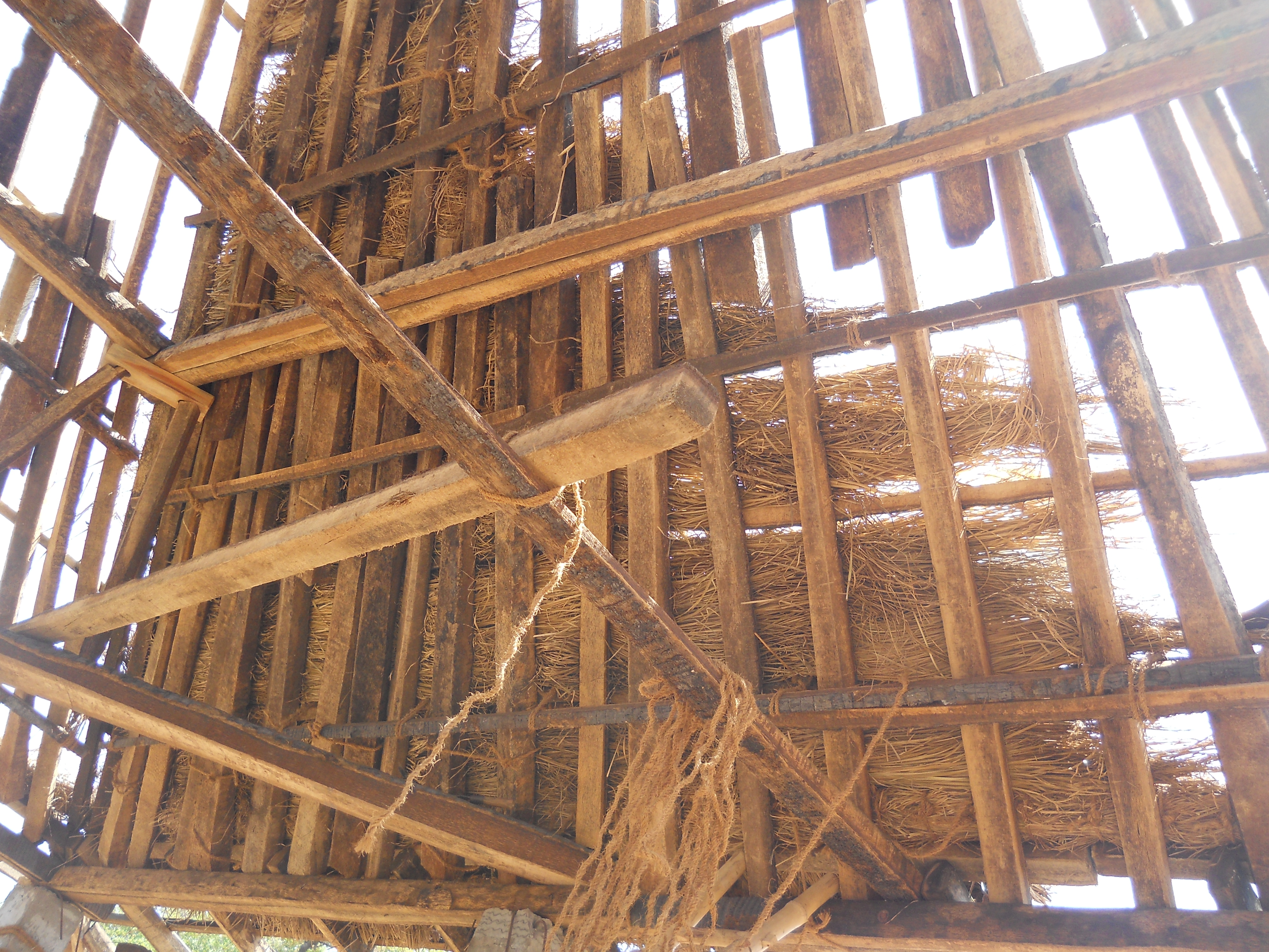 Thatcher